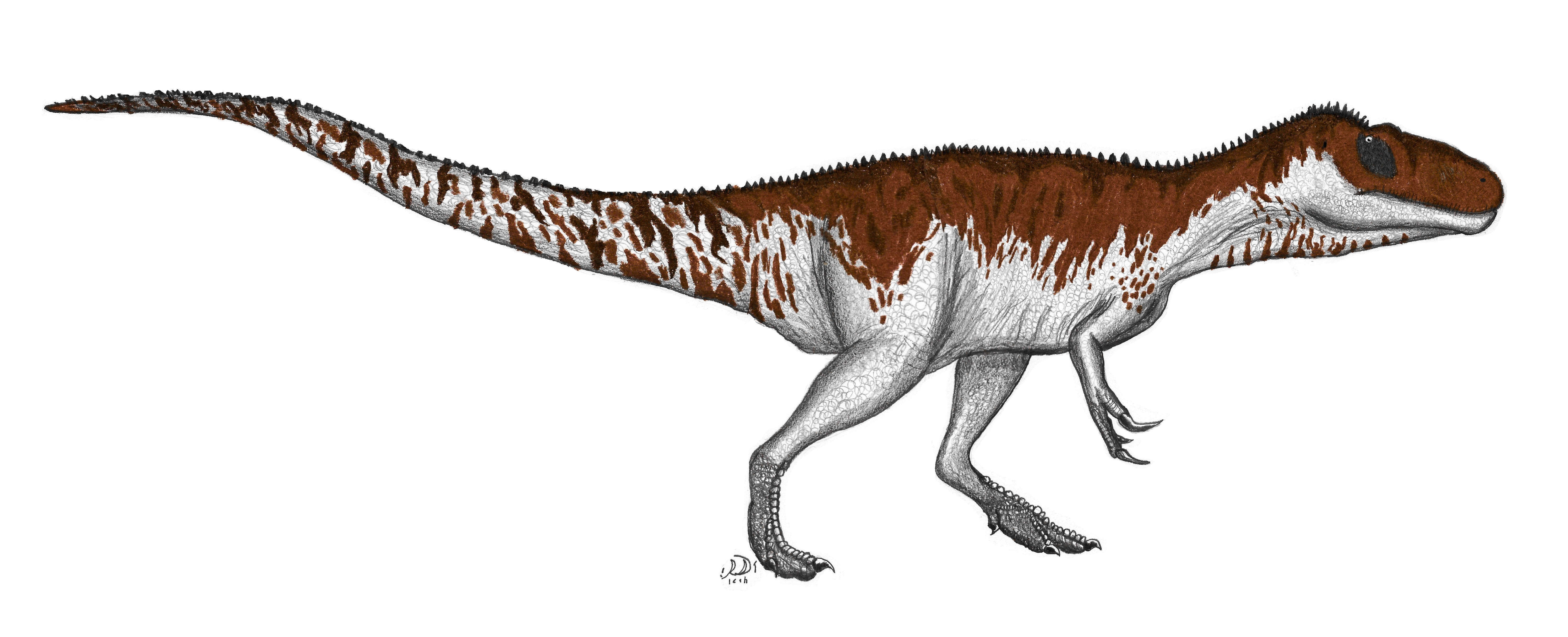 An Afrovenator abakensis life restoration based on Jaime Headden's skeletal.